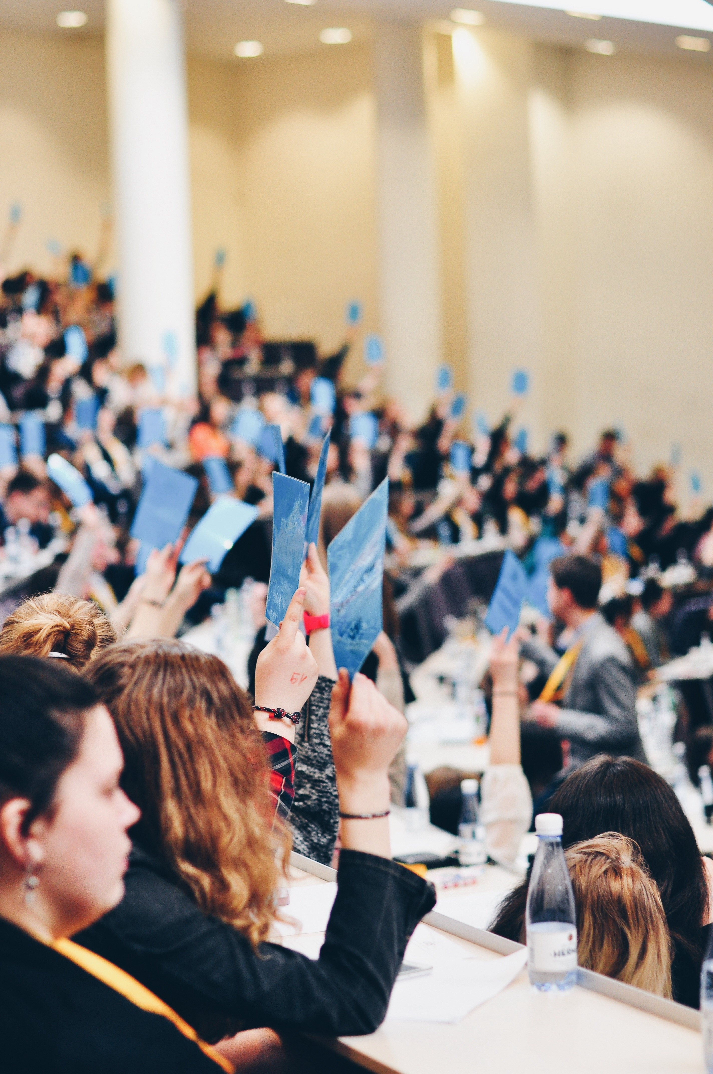 Lithuanian School Students' Union Assembly